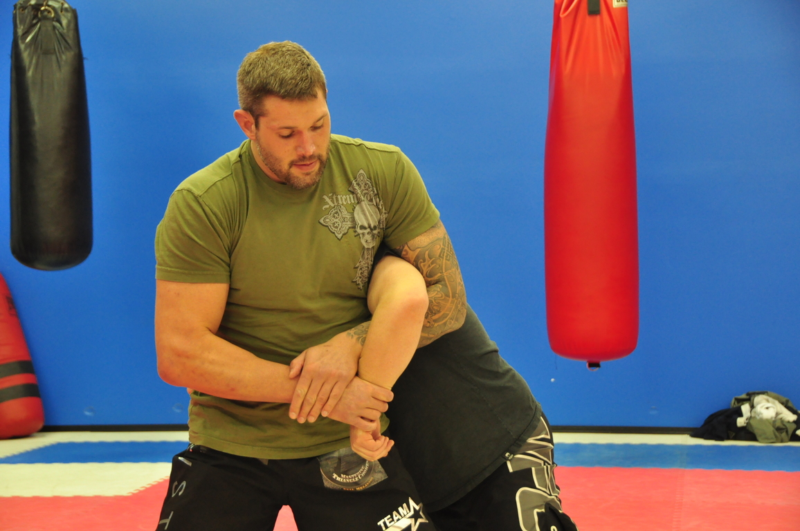 Neil Melanson Training Day demonstrating Kimura grip.